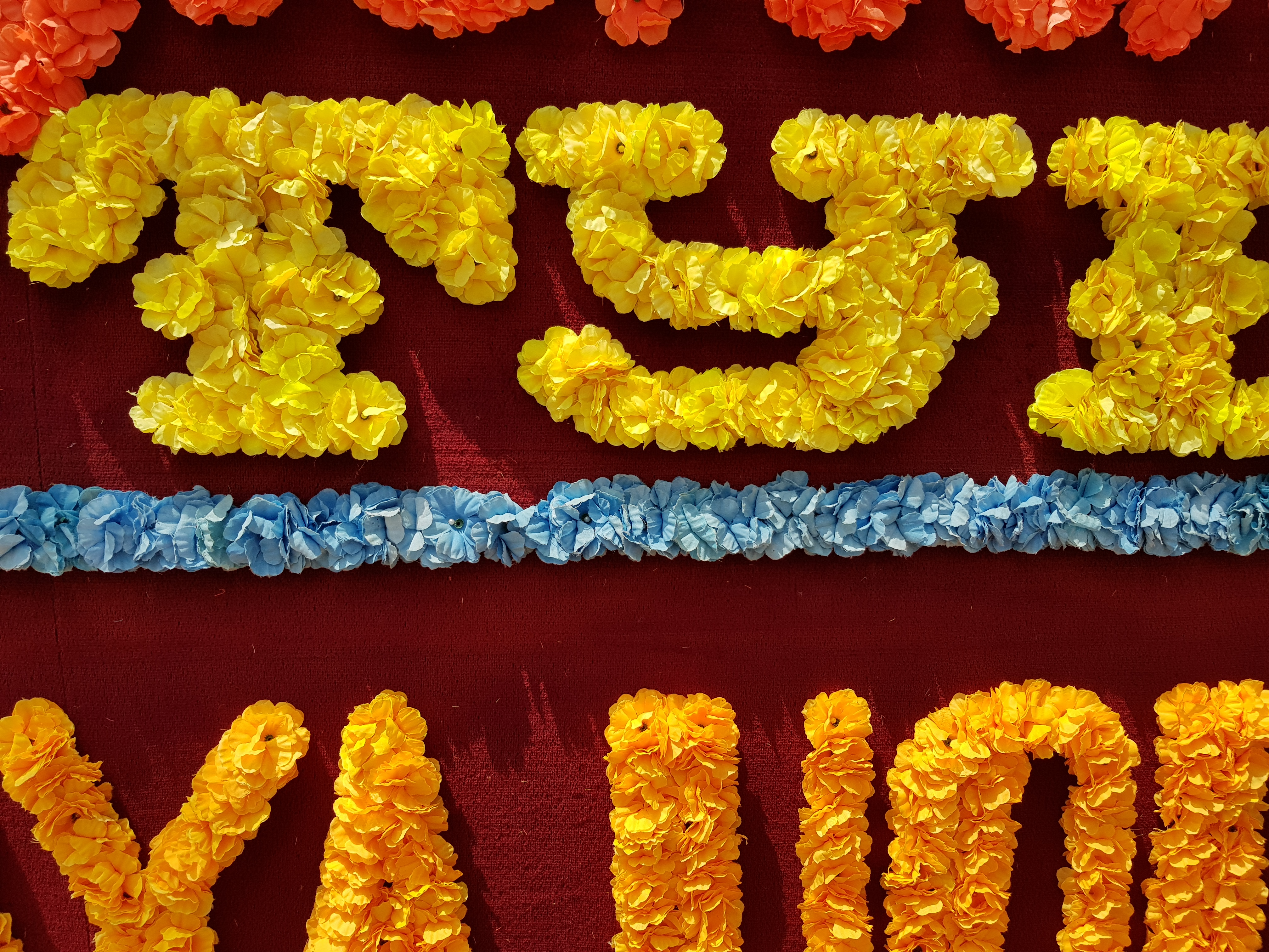 Papan Bunga (Detail), in Batam, Indonesia